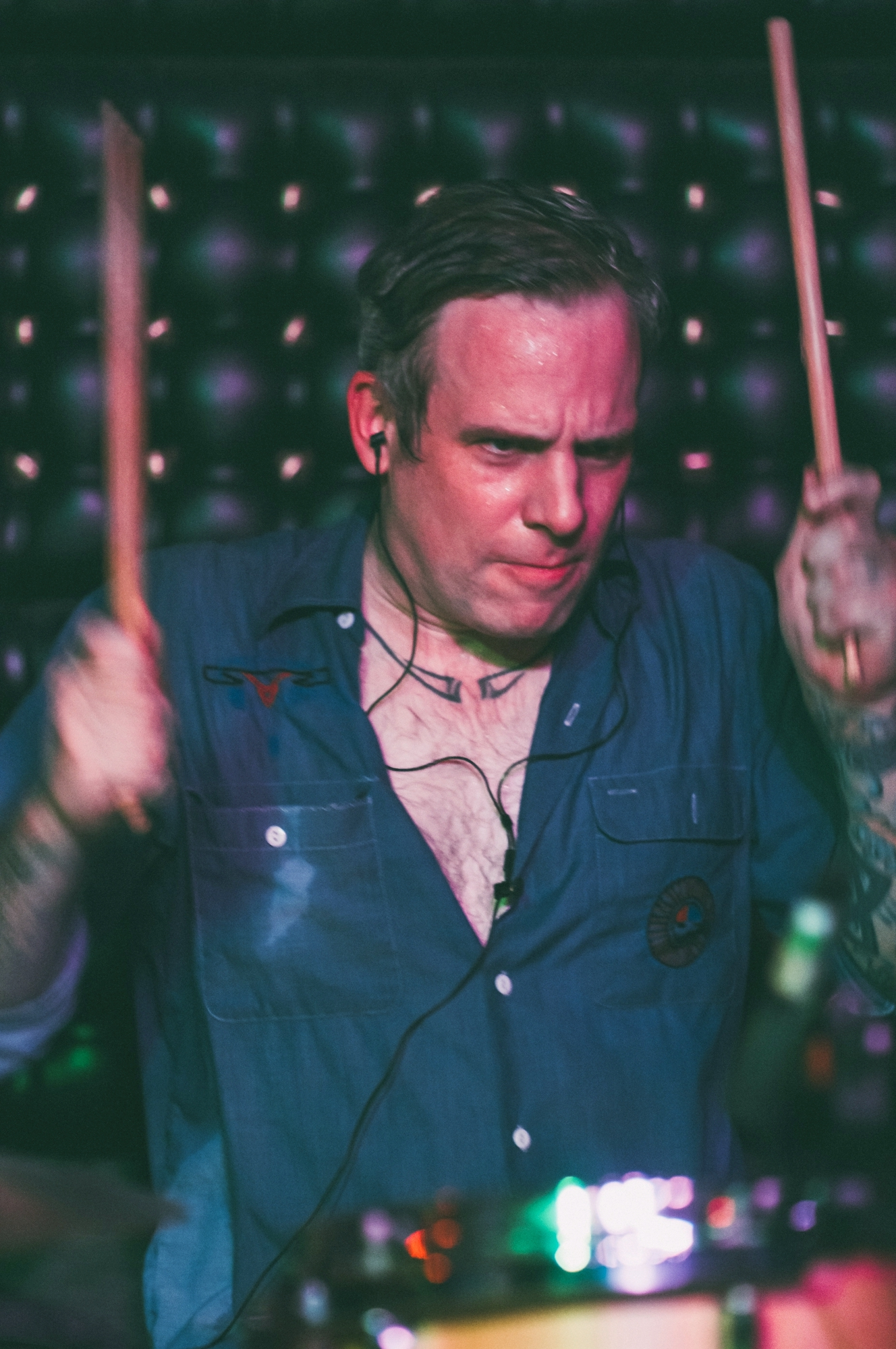 Photo by Tristan Loper Inquiries: This image is free to use per CC Attribution ShareAlike license. • You must credit Tristan Loper and provide a link to the original image. • If you change the image, distribute your version under the same CC license. License details: Did you use one of my images? Say thanks: PayPal: Patreon